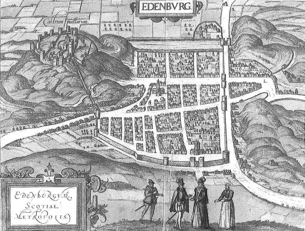 1582 drawing of Edinburgh, Scotland. From Georg Braun's Civitates Orbis Terrarum